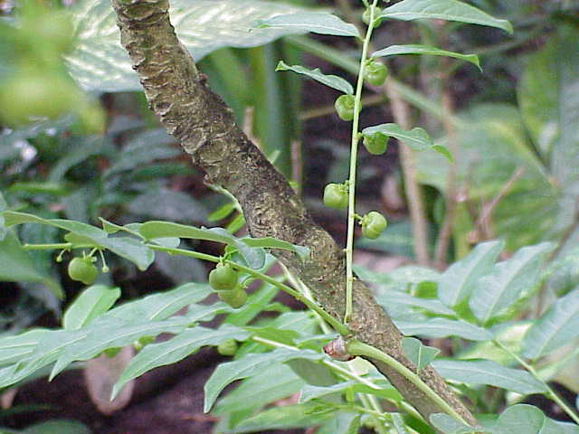 Species: Phyllanthus juglandifolius Family: Euphorbiaceae Image No. 3